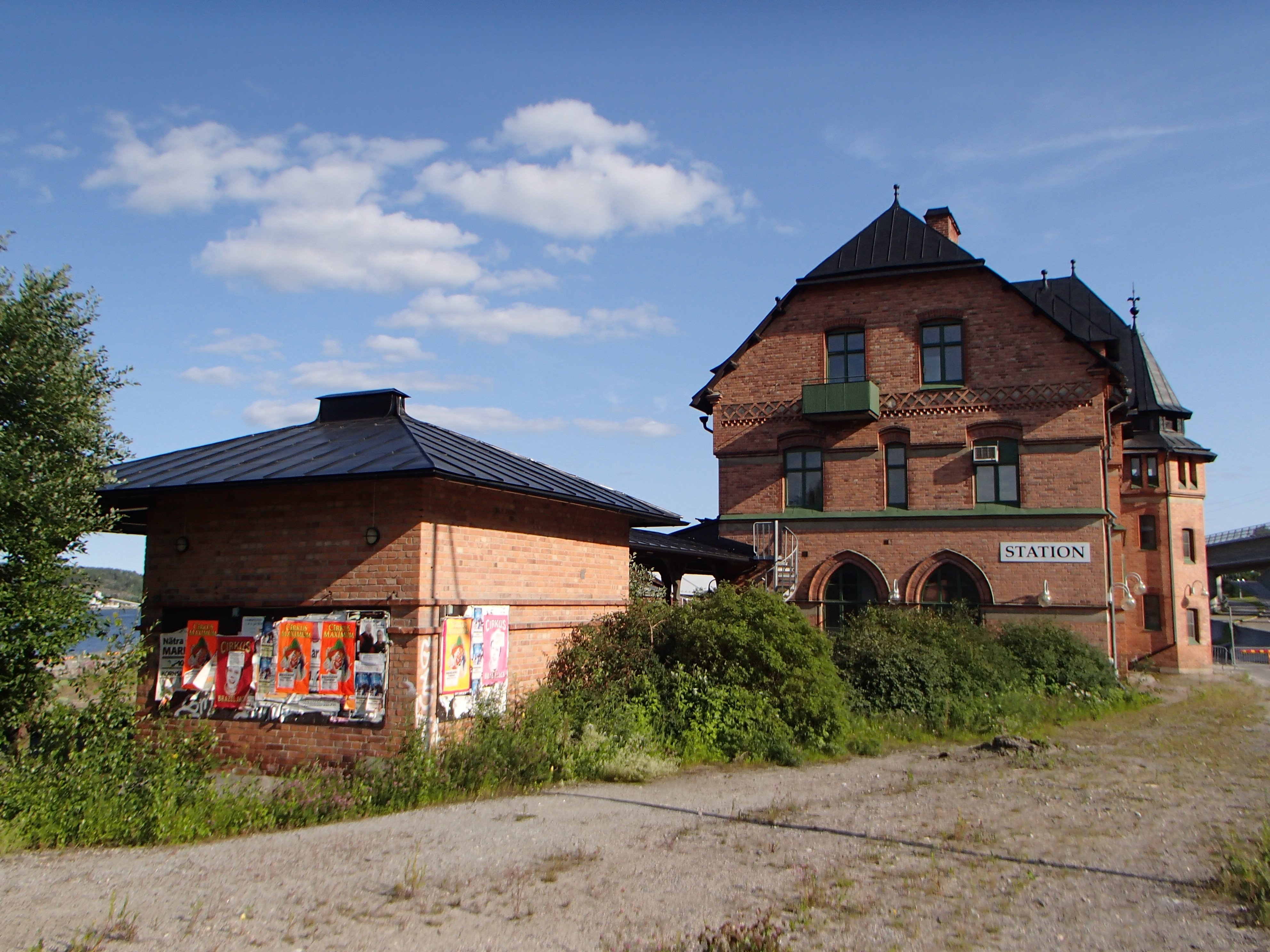 The former train station building of "Örnsköldsviks station" at Modovägen 52 in Örnsköldsvik